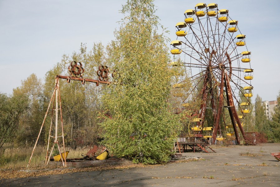 An amusement park in Pripyat that was going to be opened right after the May 1st festivities of 1986. Because of the Chernobyl accident the ferris wheel, swings and bumper cars were never used. The photo is from October 2008.